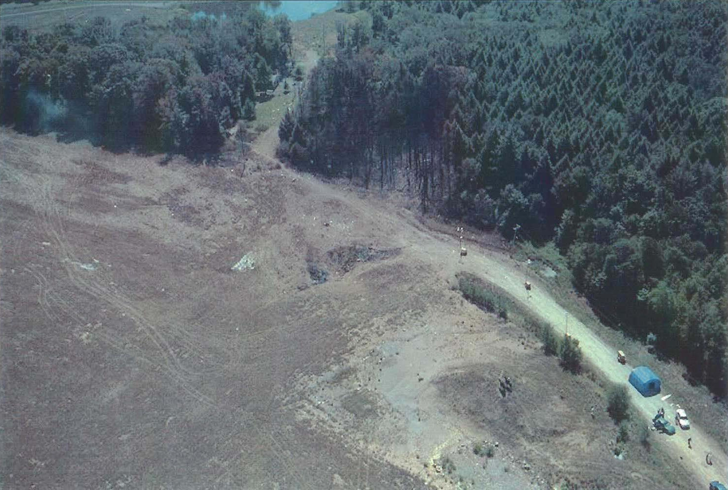 United States v. Zacarias Moussaoui Criminal No. 01-455-A Prosecution Trial Exhibits Exhibit Number P200057 Description - Photograph of the scene in Somerset County, Pennsylvania, where Flight 93 crashed